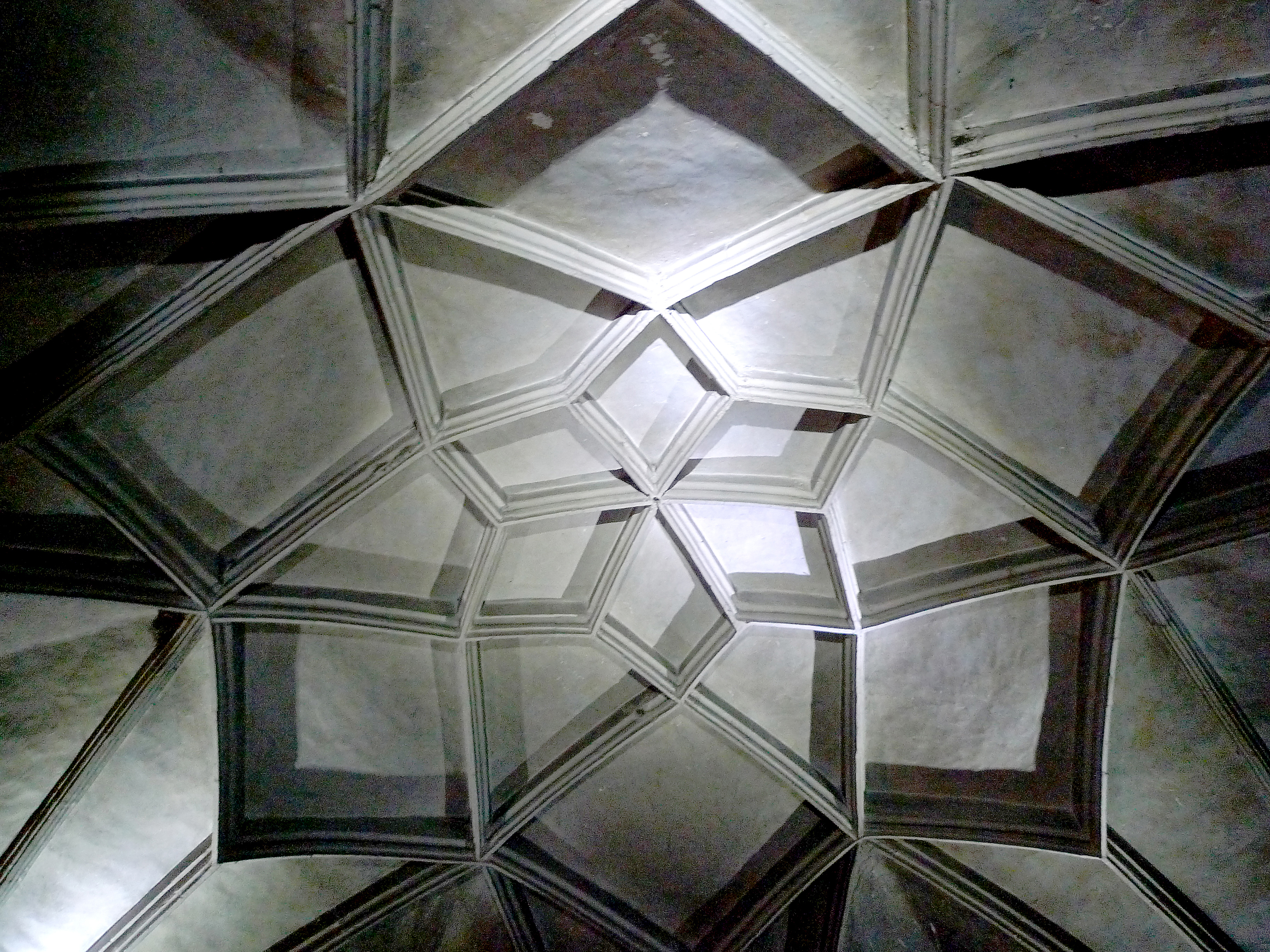 Bruck an der Mur - ehem. Heiligen-Geist-Kapelle Dieses Bild wurde anlässlich des österreichischen Tags des Denkmals 2012 in der Steiermark eingereicht.